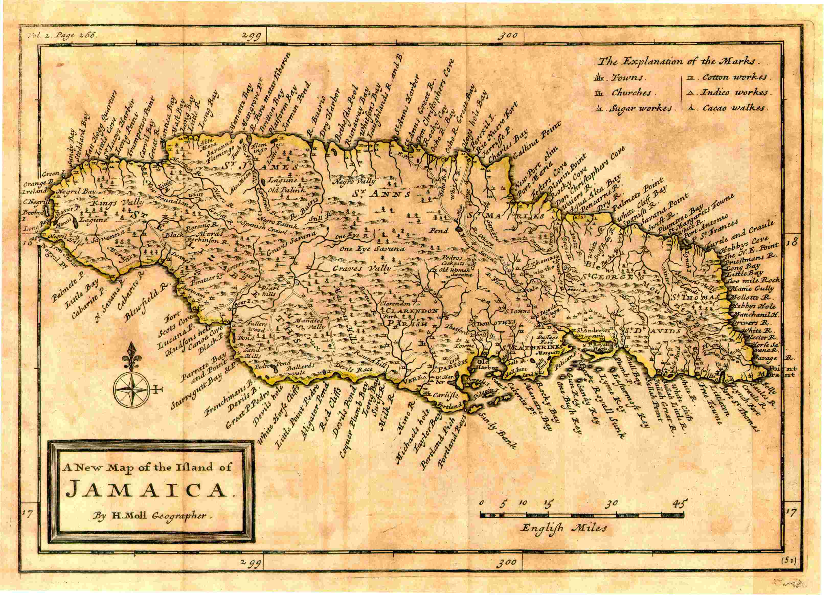 This map is entitled A New Map of the Island of Jamaica, By H. Moll, Geographer. It was published by Herman Moll in London in 1717. The page is 7.5x11 inches in size with original outline color. This is a map of Jamaica showing towns, churches, Sugar Works, Cotton Works, Indico Works and Cacoa works. There is a small but decorative title block.